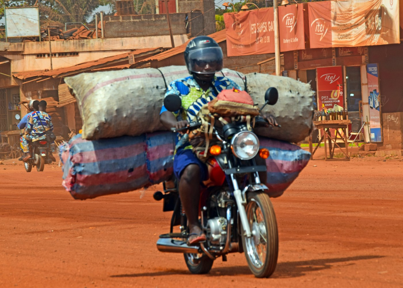 Motorcycling, although more dangerous, remains the preferred means of transporting bags of coal in large cities and other localities in Benin in general. The motorcyclist removes the seal from the bike in order to load as many bags as possible because he is paid on the number of bags delivered. This is an image with the theme "Africa on the Move or Transport" from: Benin